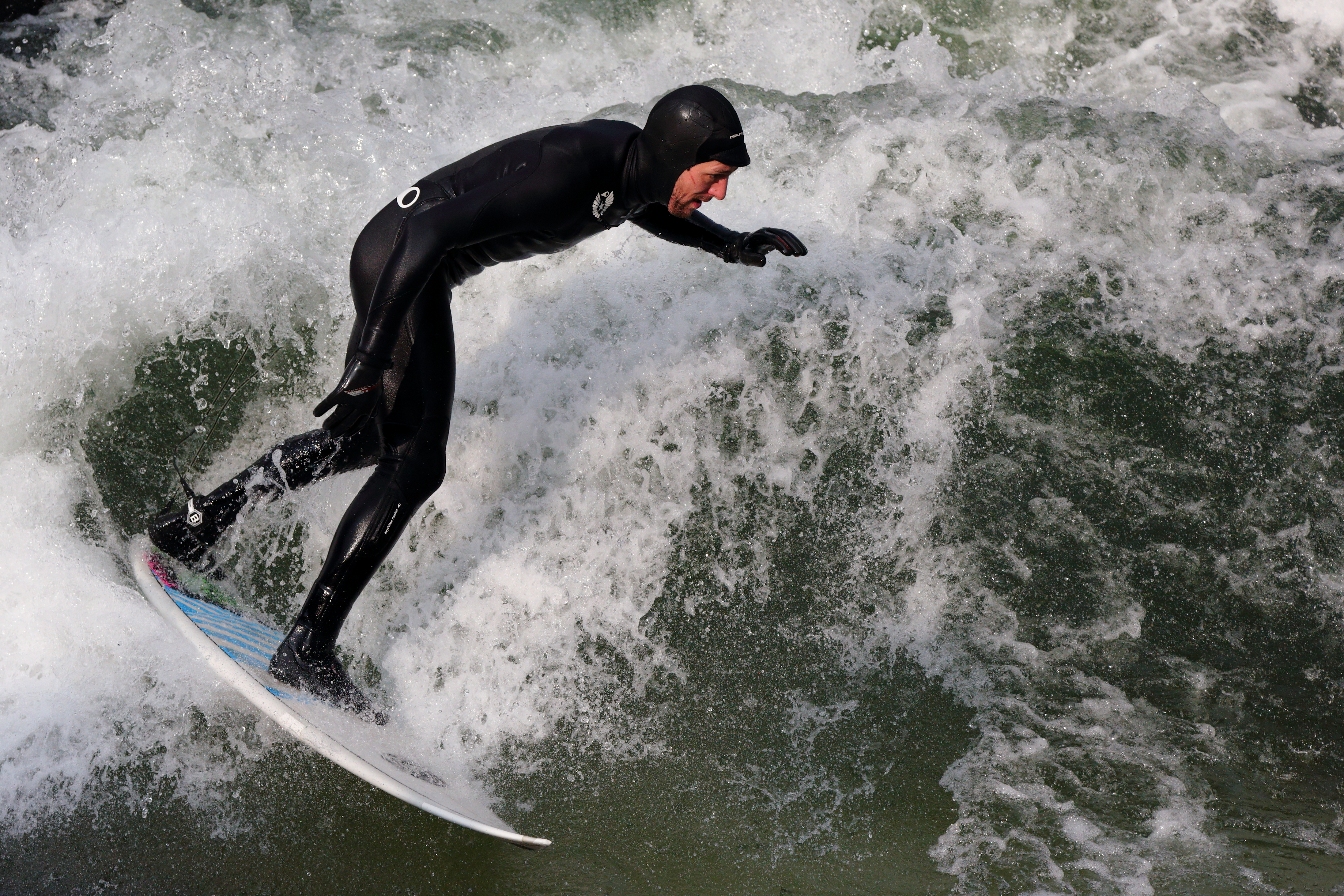 Surfer, English Garden Munich